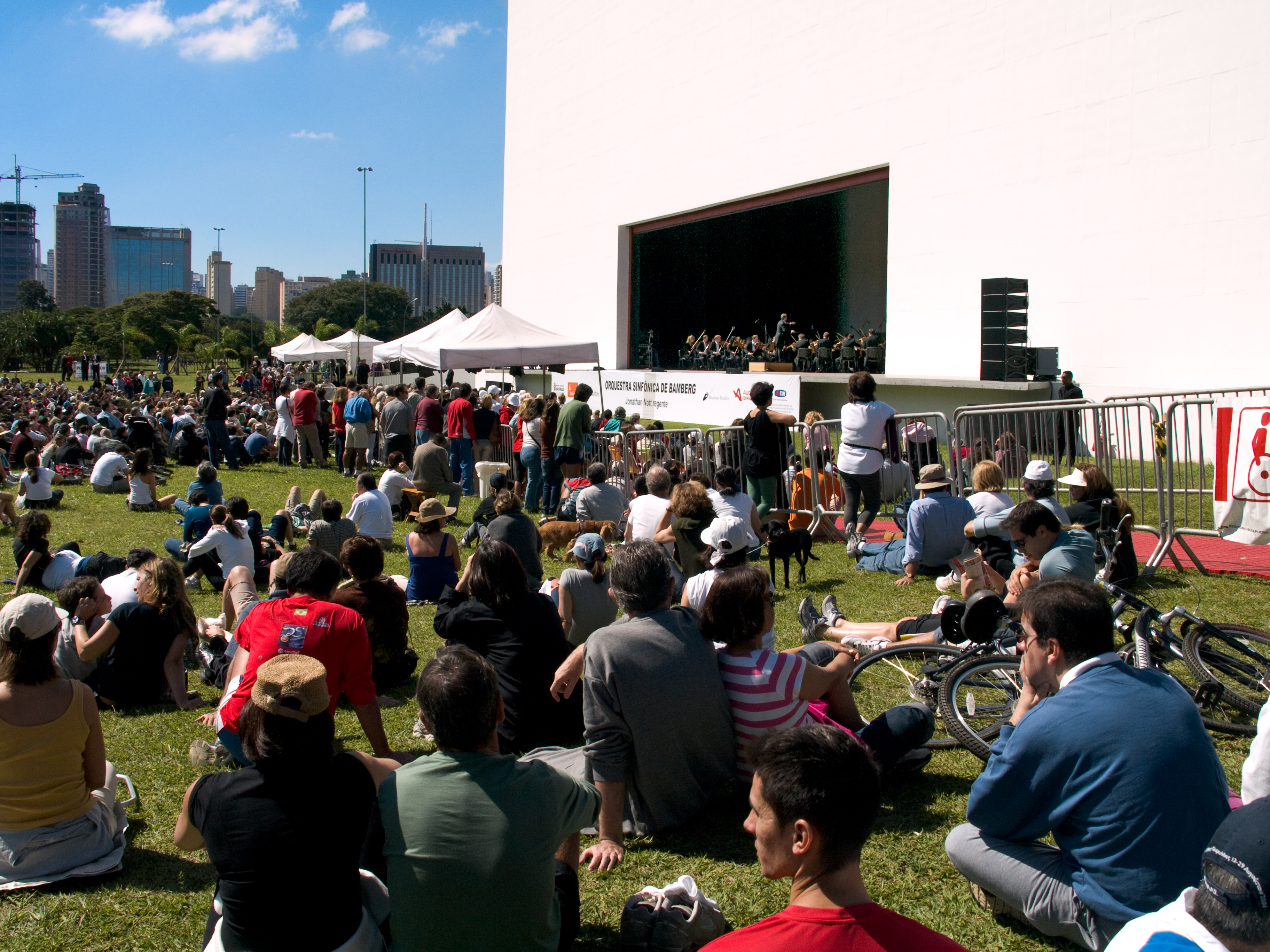 Concert at the Ibirapuera Auditorium in São Paulo